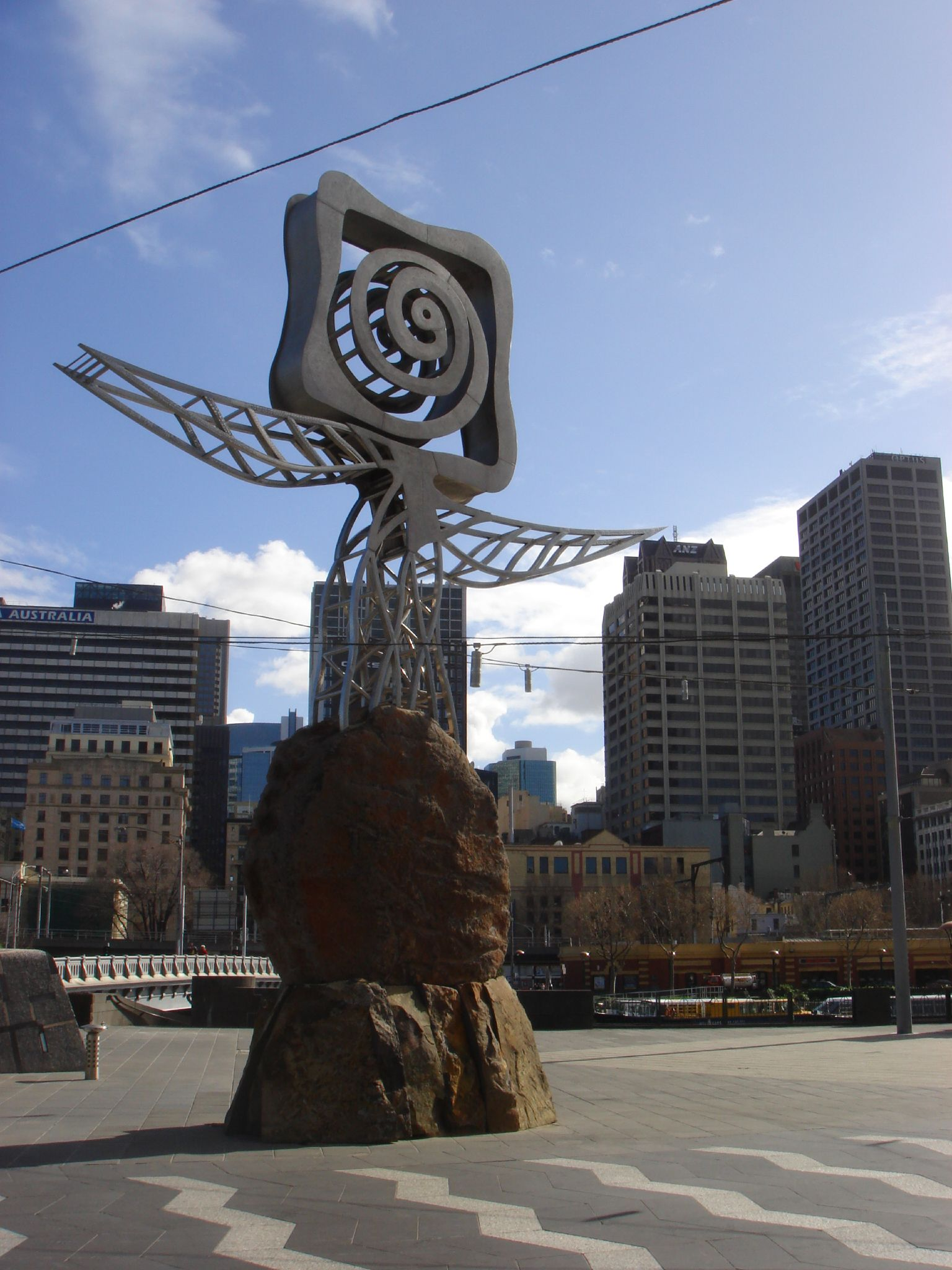 Sculpture in Melbourne/Australia